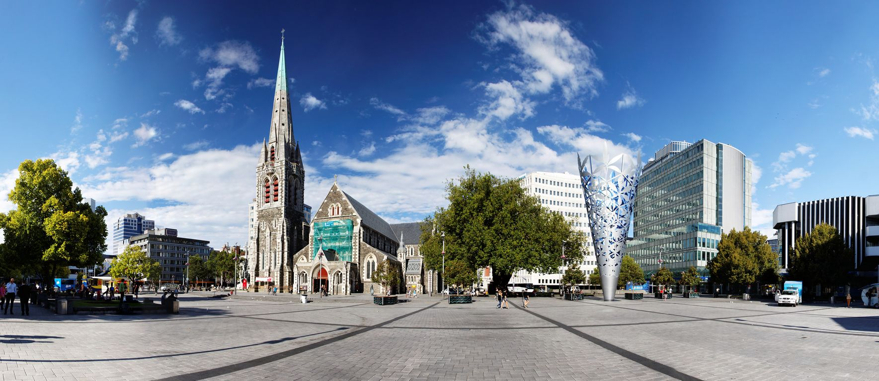 20100130-07-Christchurch Cathedral Square panorama